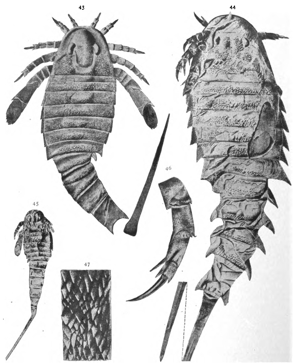 Figures 43–47 Eurypterus (Anthraconectes) mansfieldi C. E. Hall. Figure 43, a small, fairly perfect specimen, ×3; figure 44, large specimen, natural size, showing the long epimera; figure 45, a nearly entire small individual, showing the extremely slender telson and the doublures of the postabdominal segments; figure 46, the fourth endognathite, ×2; figure 47, enlargement of test with narrow, triangular scales. (From James Hall) The Eurypterida of New York. Volume 1. New York State Museum Memoir 14, figures 43-47